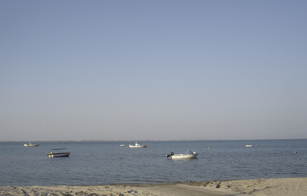 Boats at Methoni beach, Pieria.